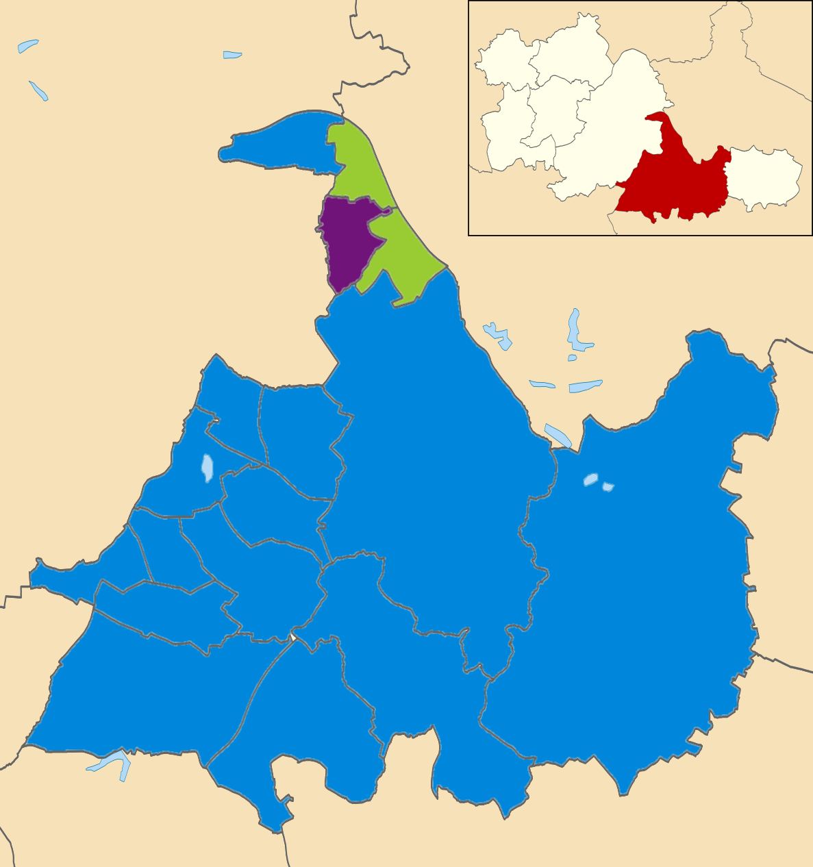 Results of the 2015 local elections in Solihull Colours: Conservative Green Party UKIP